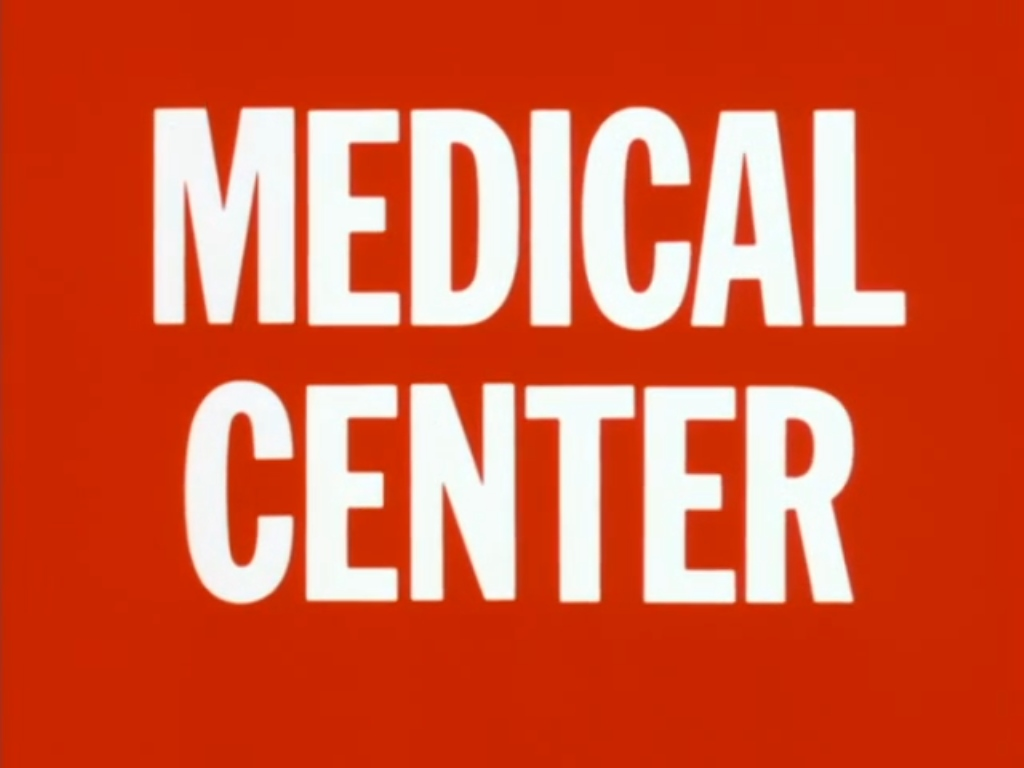 Opening Logo/Sequence of Medical Center